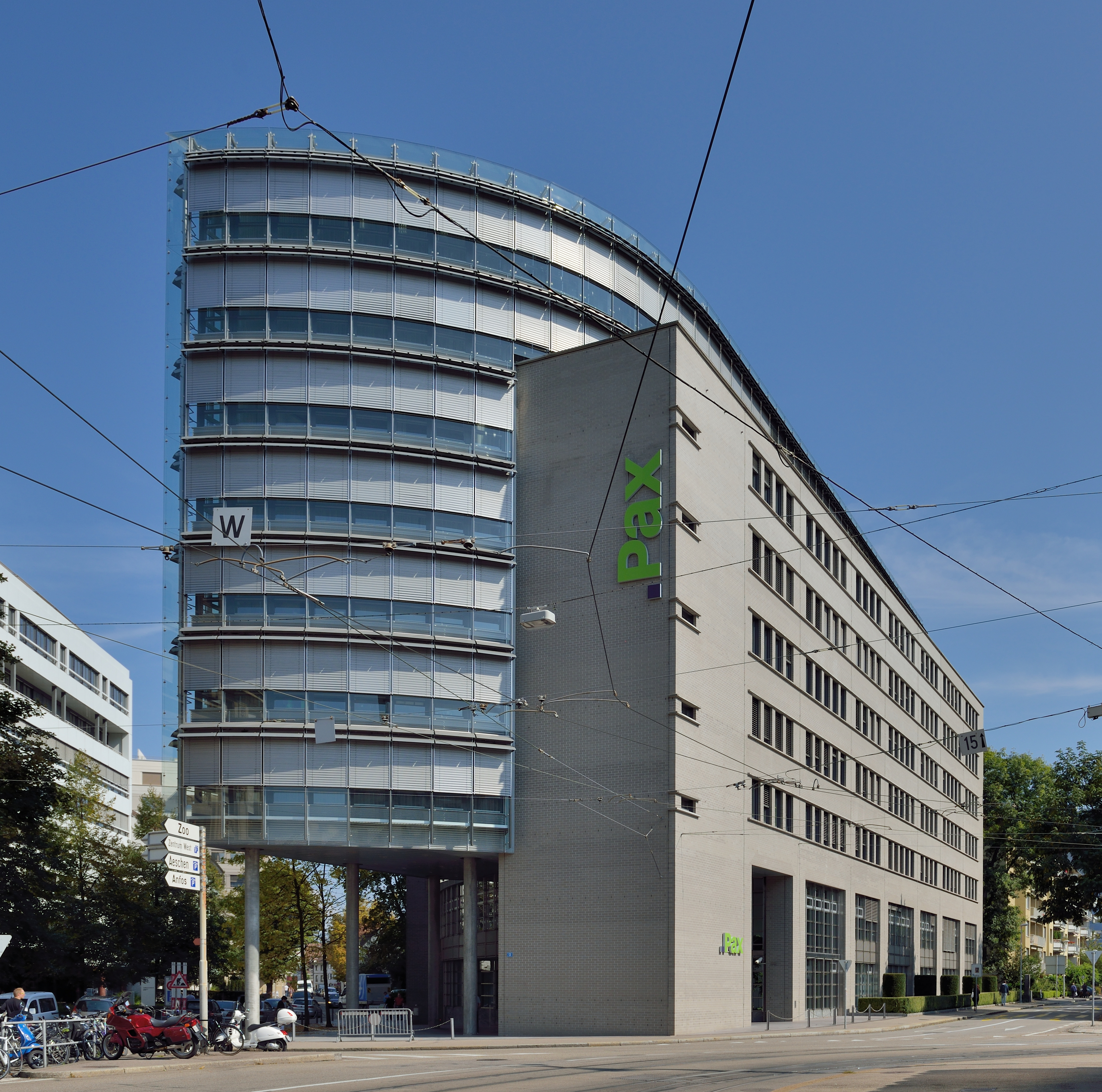 Pax Life Insurance